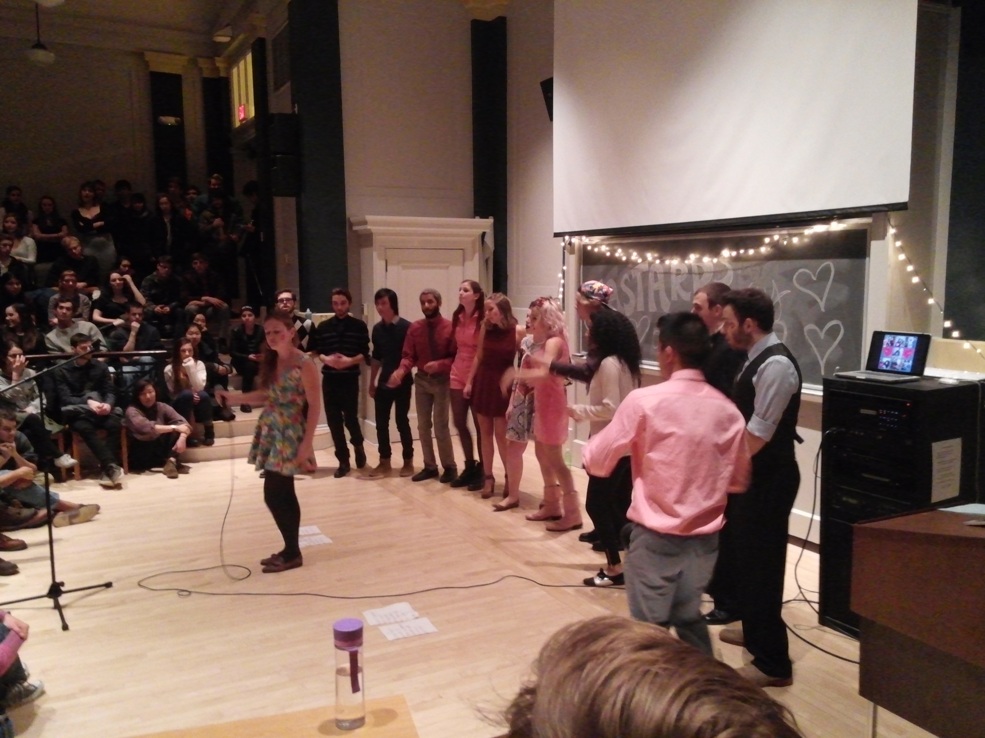 The Vassar College Vastards performing in Rockefeller Hall during their Love Story concert.